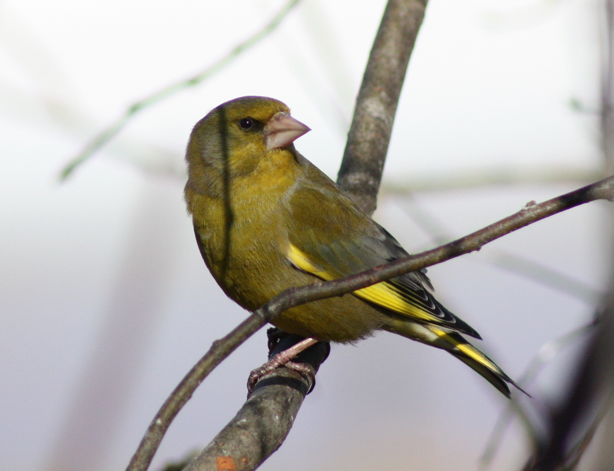 European Greenfinch (Carduelis chloris) in Hollihaka Park, Oulu.